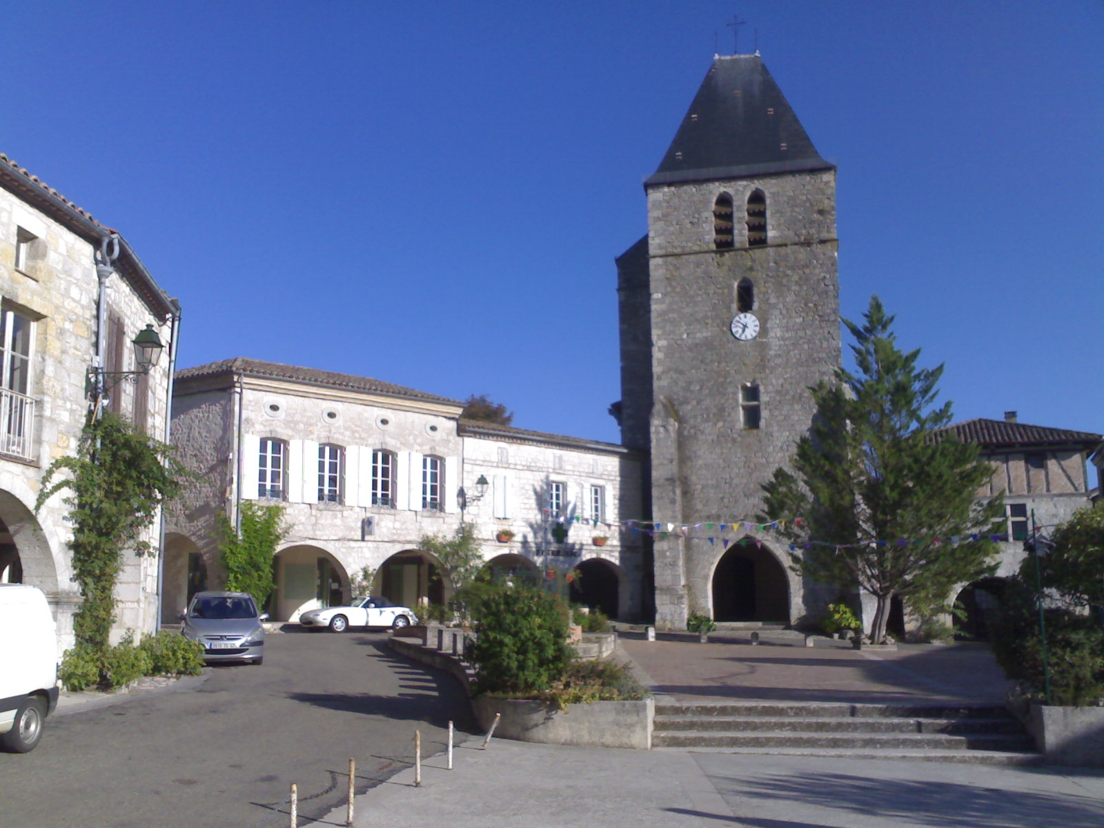 Principal place